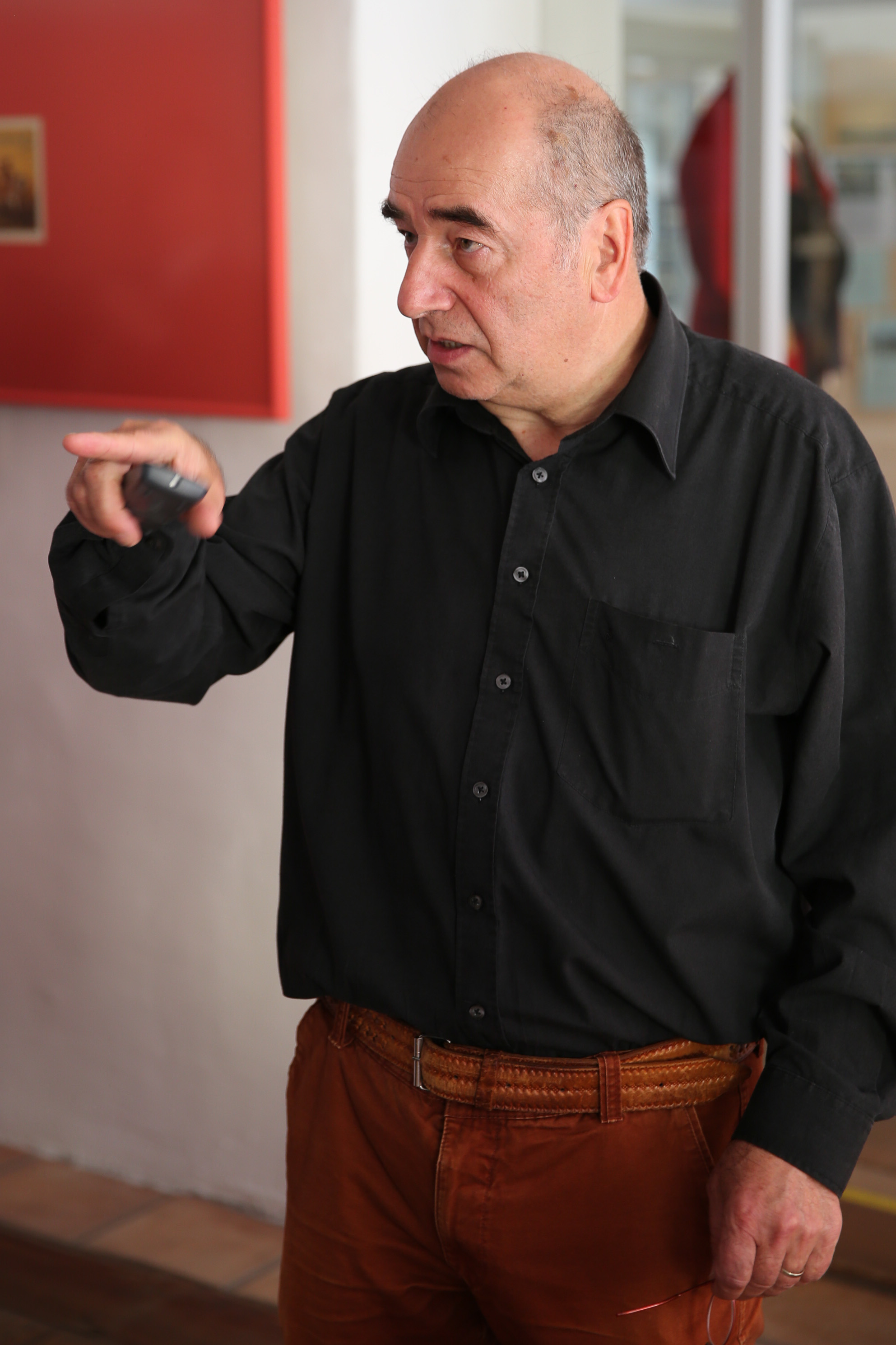 Austrian Brass Music Museum in Oberwölz / Styria / Austria / EU. Museum Director Rudolf Gstättner.